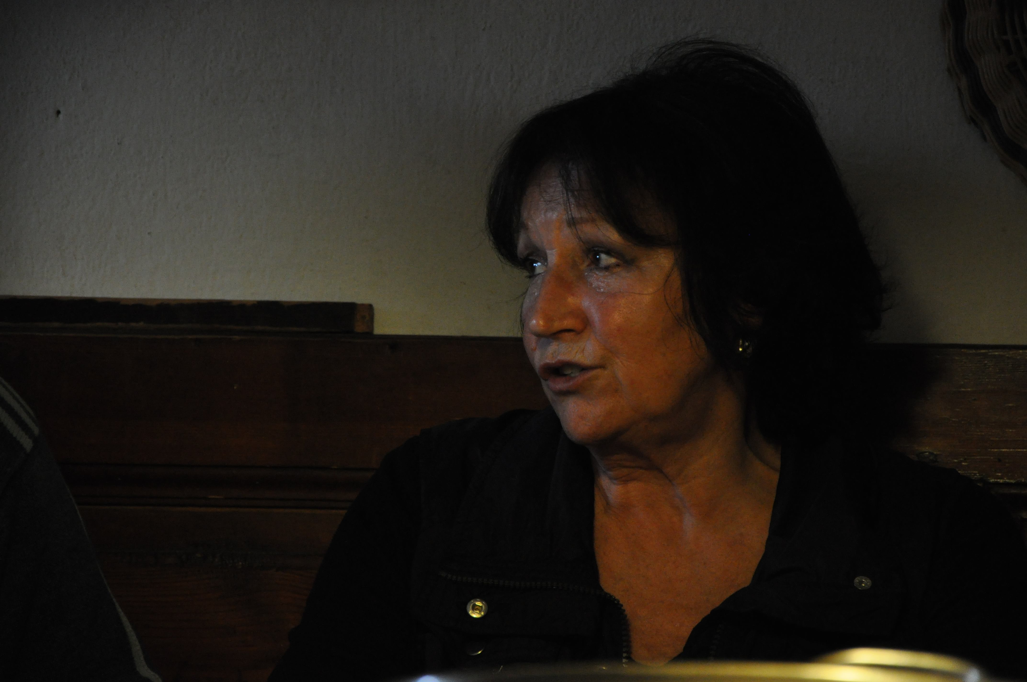 Marta Kubišová